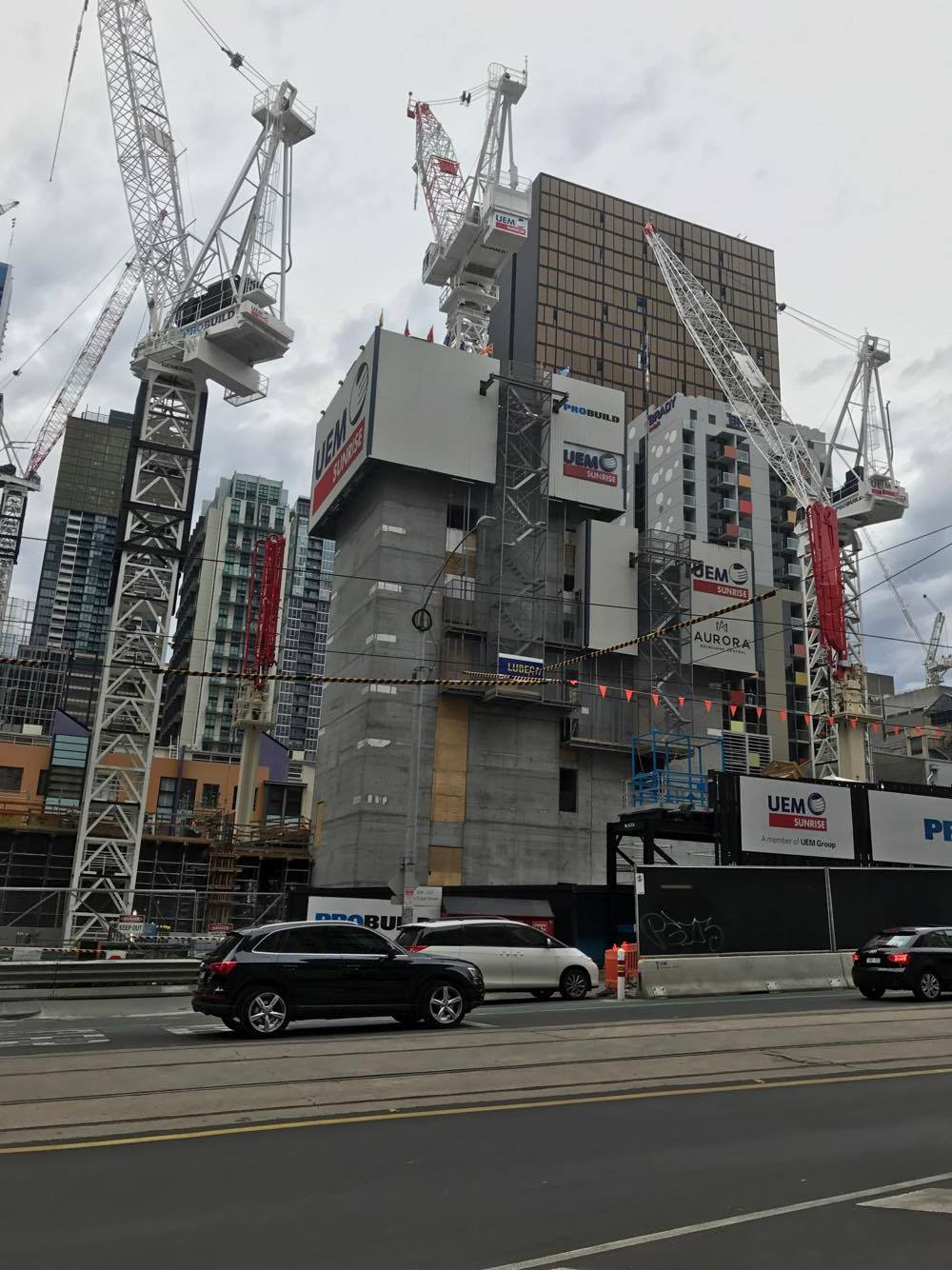 Aurora Melbourne Central, a skyscraper, currently under construction in Melbourne